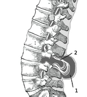 Myelomeningocele or meningomyelocele schematic figure (self made based on many figures found on the internet). External sac with cerebrospinal fluid Spinal cord wedged between the vertebrae (technically Cauda Equina, not spinal cord at this level